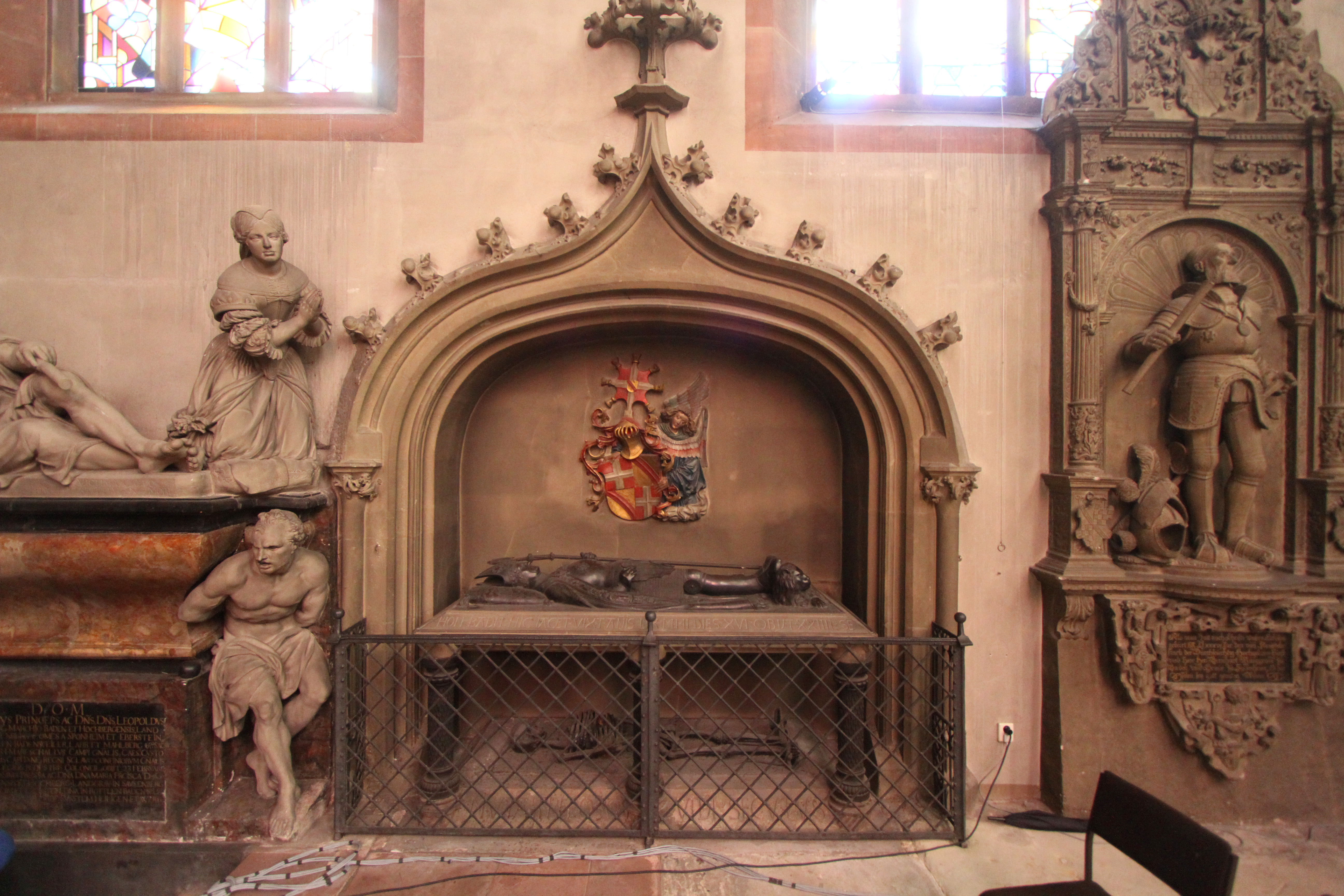 Epitaph of Frederick IV, Margrave of Baden, in the Stiftskirche Baden-Baden.